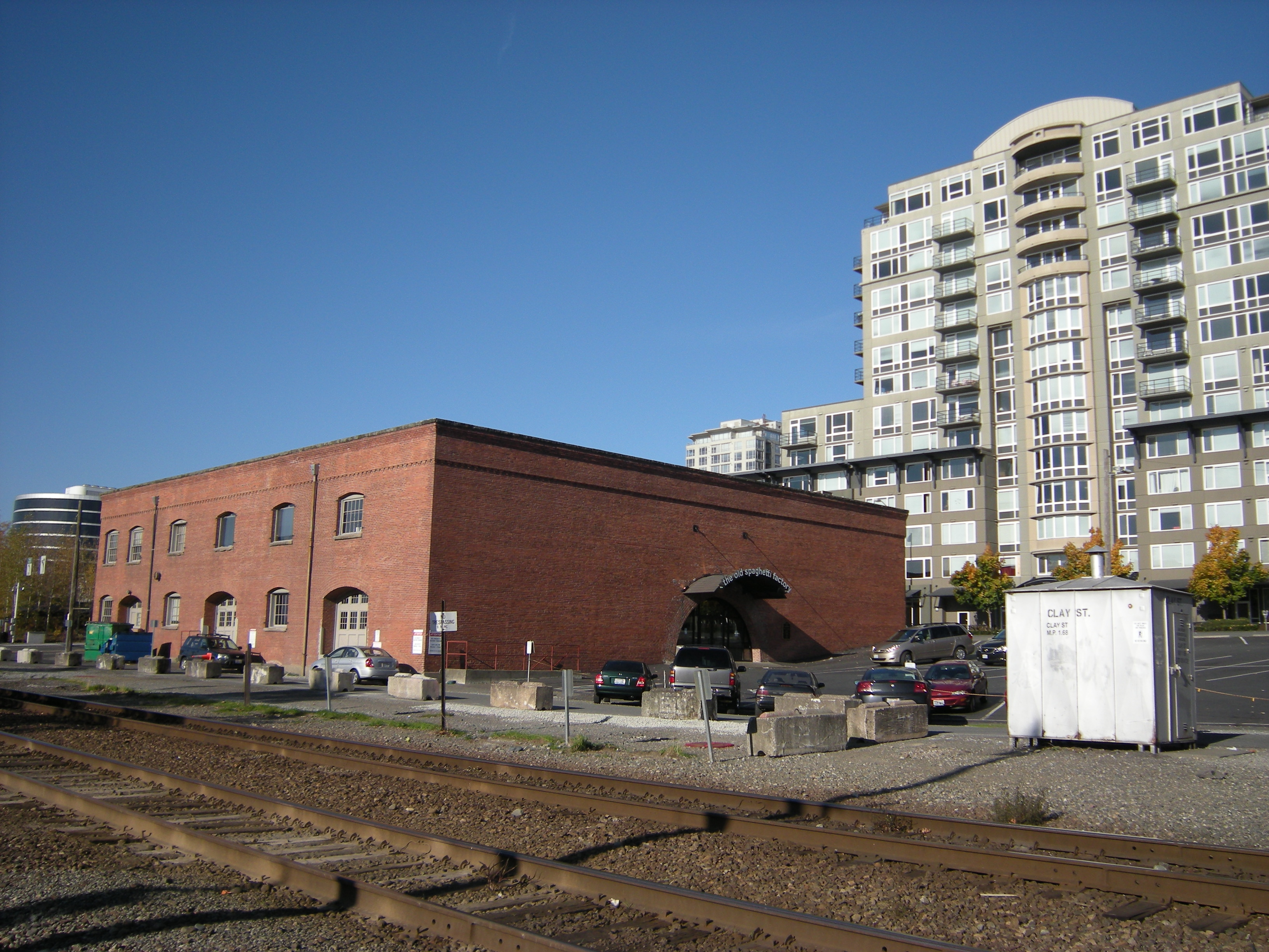 The Old Spaghetti Factory, 2801 Elliott Avenue, Seattle, Washington. The former Ainsworth and Dunn Warehouse.